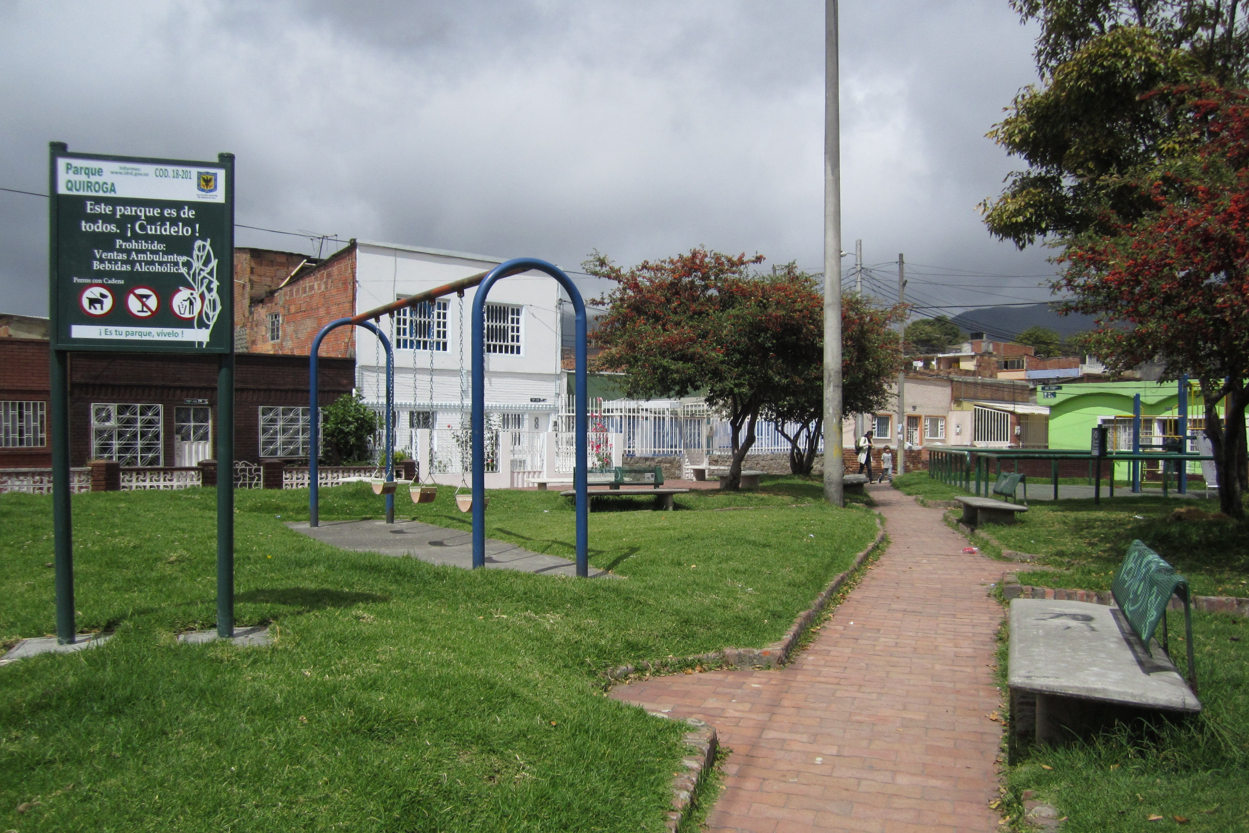 Bogotá